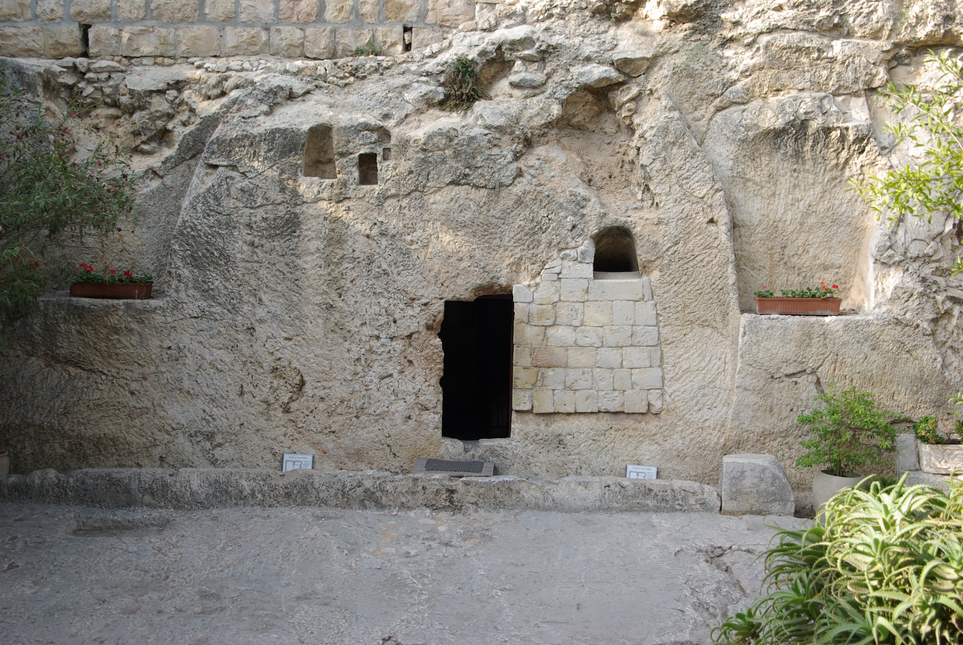 Jerusalem, Garden Tomb